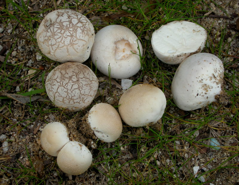 Bovista aestivalis For more information about this, see the observation page at Mushroom Observer.